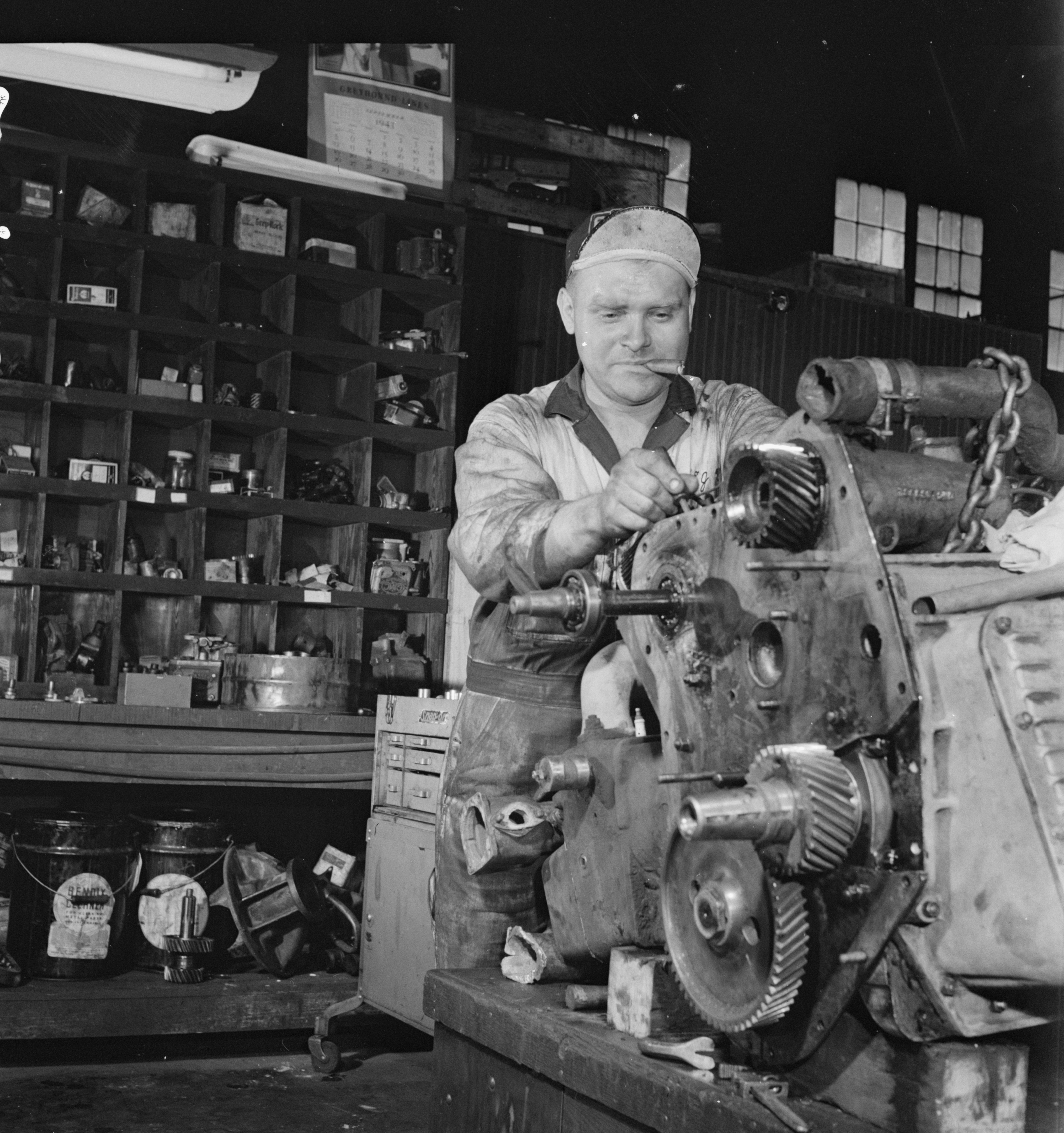 Mechanic rebuilding a bus engine at the Tennessee Coach Company garage in Knoxville, Tennessee, USA, photographed by Esther Bubley in 1943.